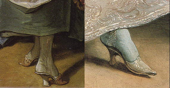 Early eighteenth century ladies' shoes (mules).